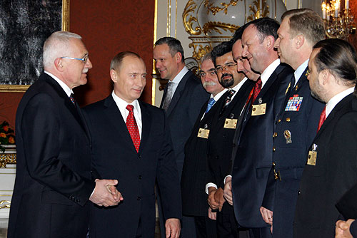 PRAGUE. Before the beginning of Russian-Czech talks in enlarged format. With members of the Czech delegation.